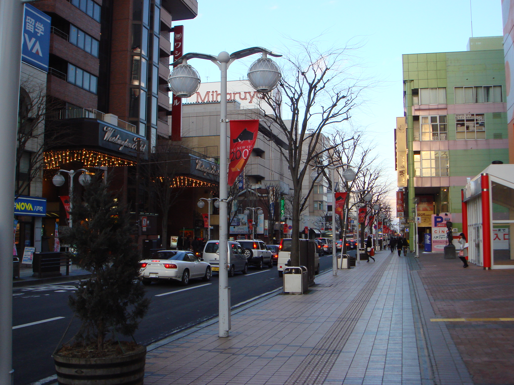 Hachinohe city of downtwon